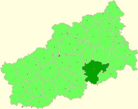 Tver Oblast map by Al Silonov